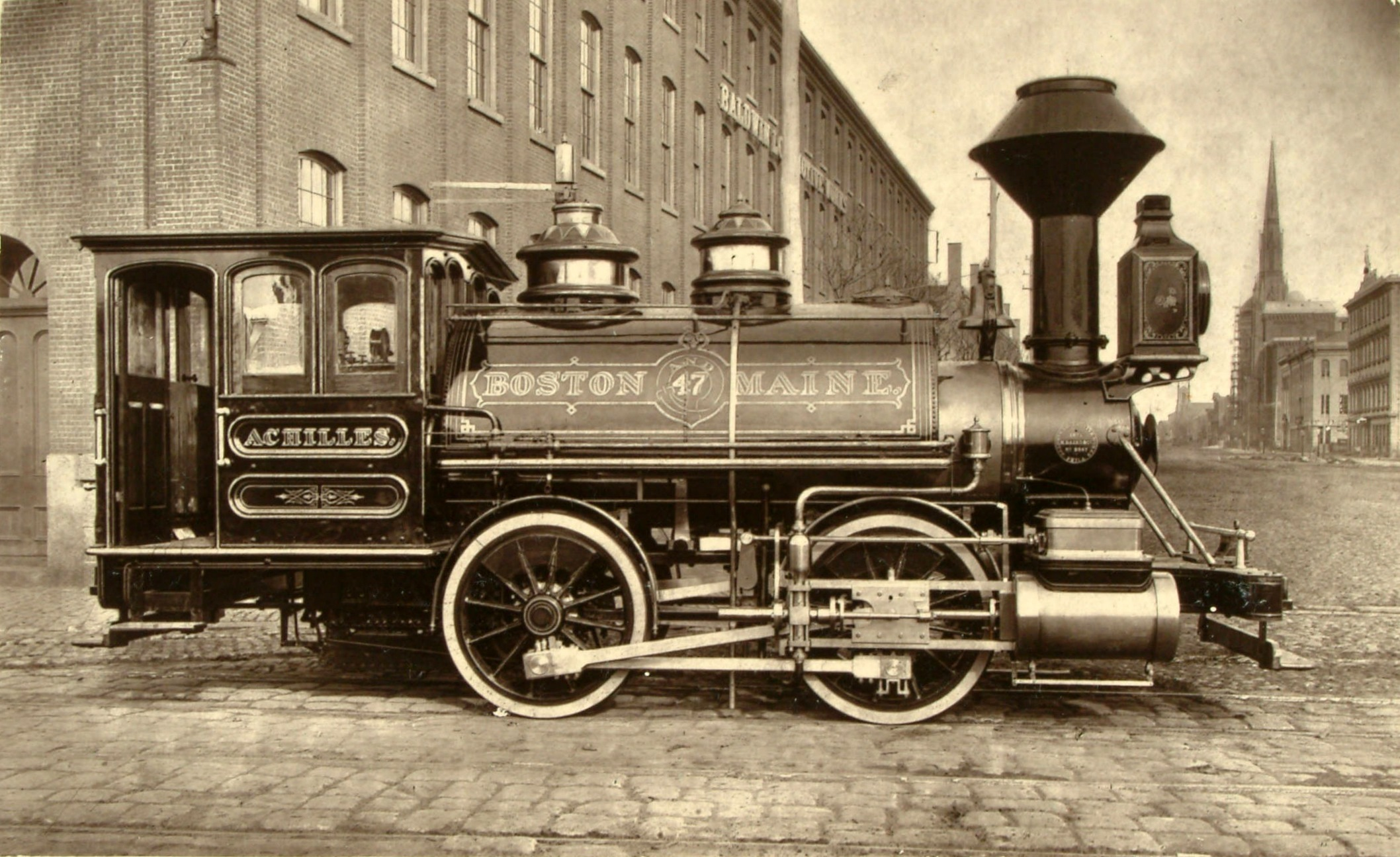 Woodburytype of photograph of Boston & Maine No. 47 "Achilles" 0-4-0. Located outside of Baldwin Locomotive Works, Philadelphia, PA. This is a retouched picture, which means that it has been digitally altered from its original version. Modifications: cropped, minor contrast adjustment.